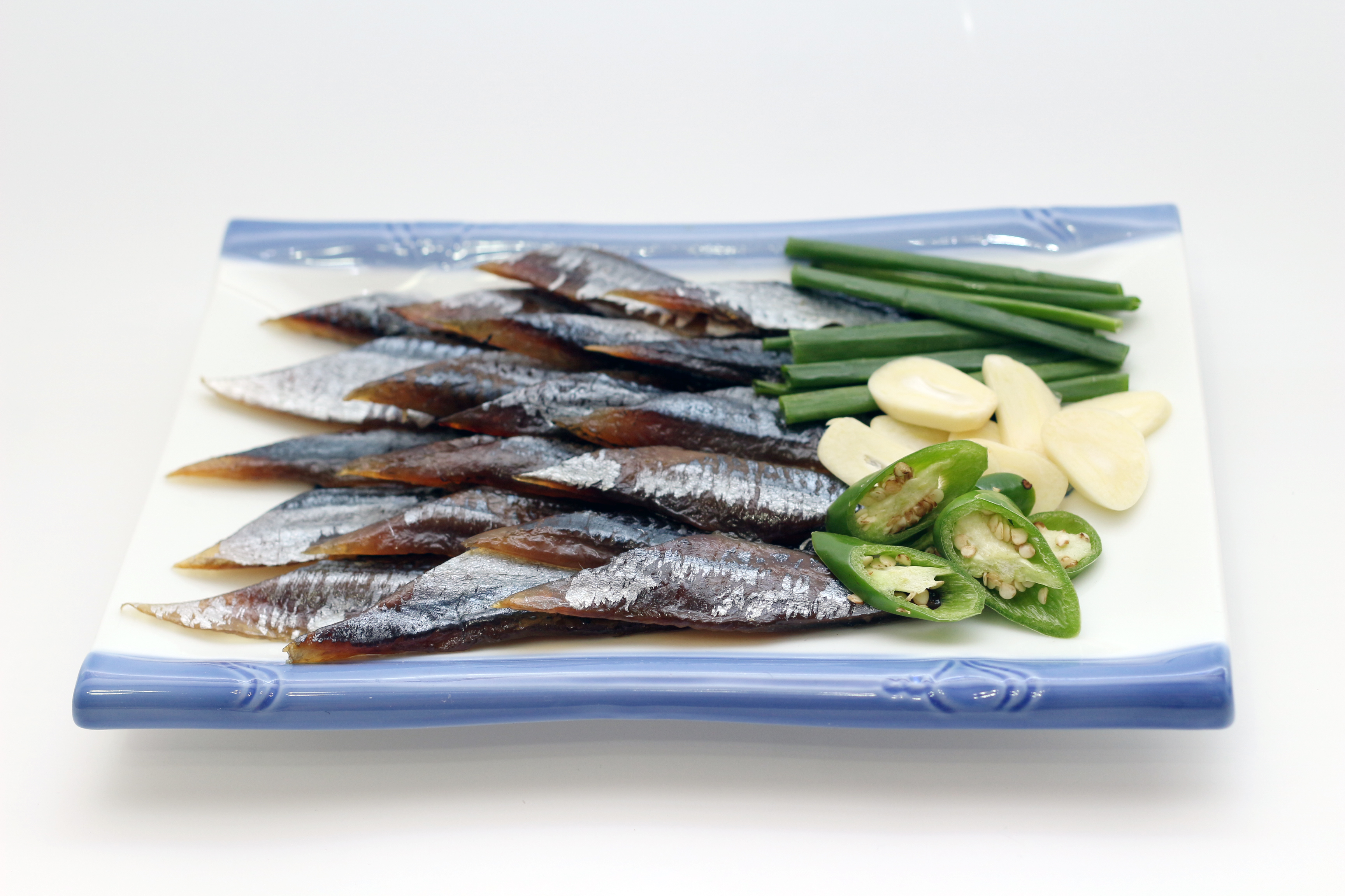 Gwamegi